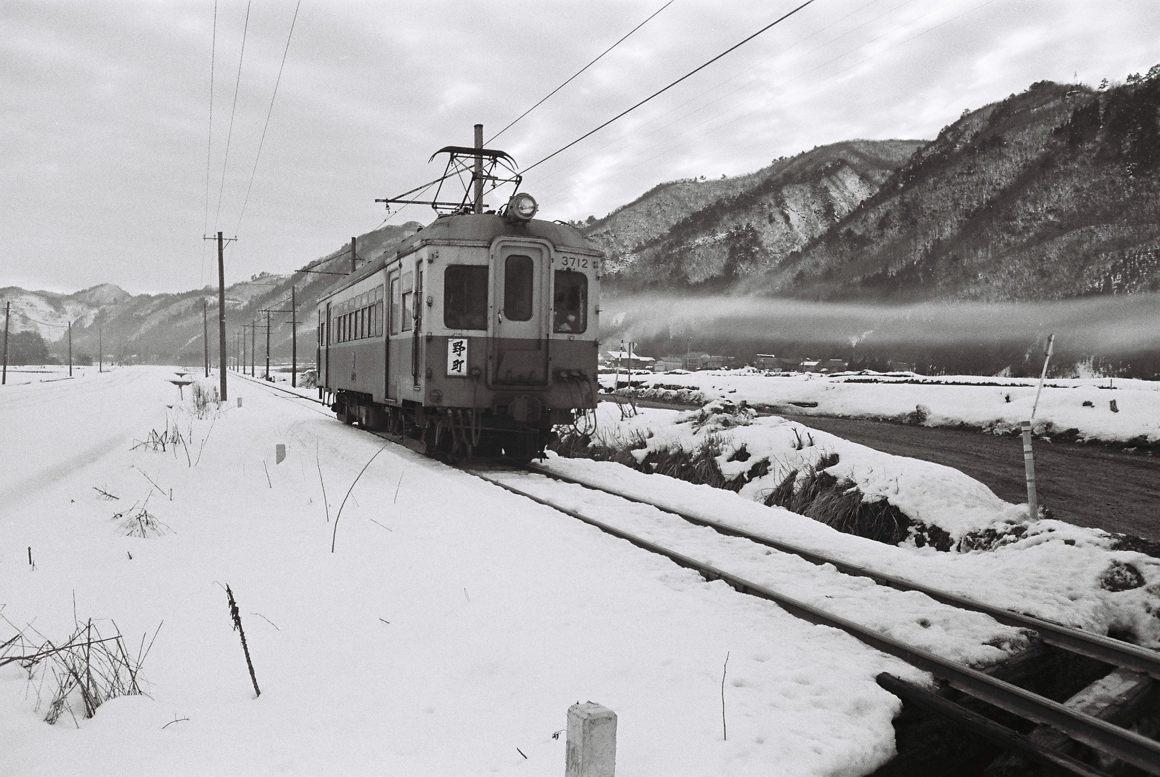 北陸鉄道金名線